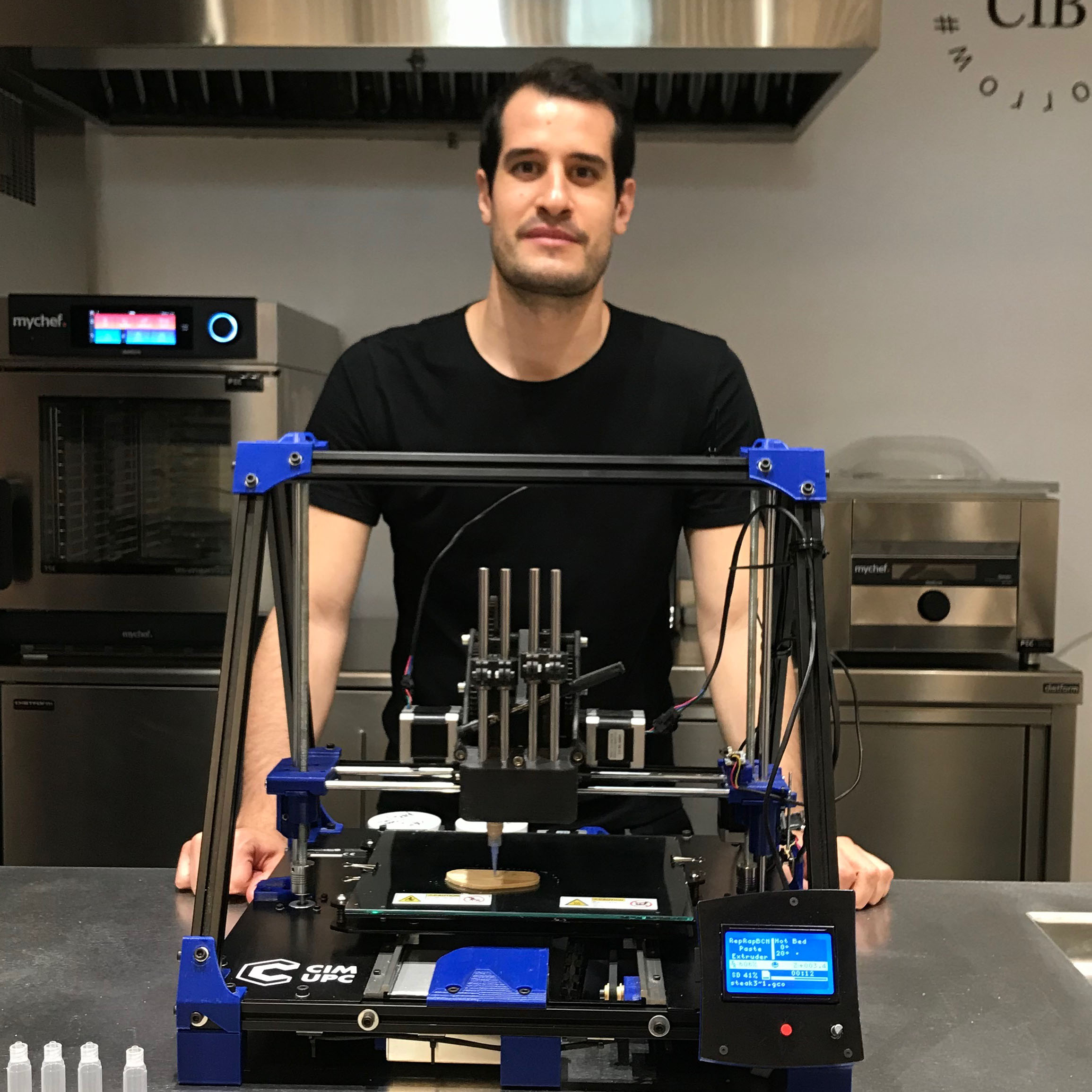 Profile picture of Giuseppe Scionti, with a prototype of his printer in 2019